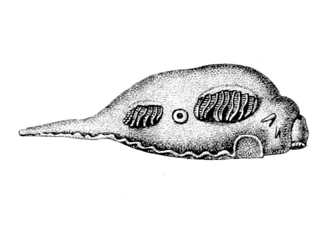 Laniogerus elfortii = Glaucus atlanticus